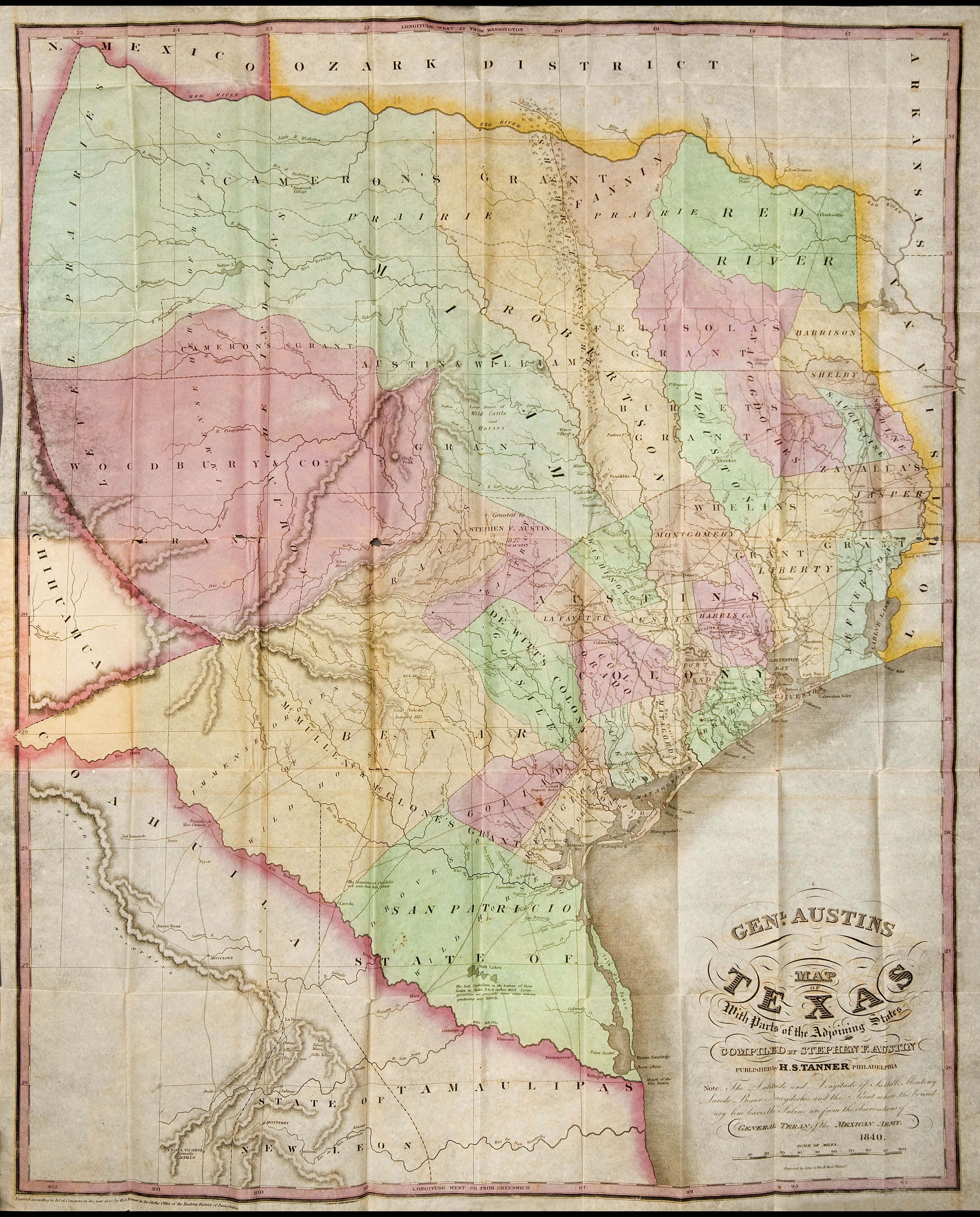 Large color folding map titled: Genl. Austin's Map of Texas with Parts of the Adjoining States, compiled by Stephen F. Austin. Published by H.S. Tanner, Philadelphia. Engraved by John & Wm. W. Warr, Philad. (29.5" x 23.5"). Included in the book "Map and Description of Texas, containing Sketches of its History, Geology, Geography and Statistics: With concise statements, relative to the soil, climate, productions, facilities of transportation, population of the country; and some brief remarks Upon the Character and Customs of its Inhabitants. By Francis Moore, Jr., Editor of the Telegraph and Texas Register." (Philadelphia: H. Tanner, Junr.; New York: Tanner & Distunell, 1840). First edition.